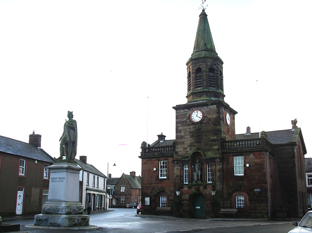 Lochmaben town centre, Dumfries and Galloway; the large building with spire is the town hall, the statue represents King Robert I (aka Robert the Bruce)